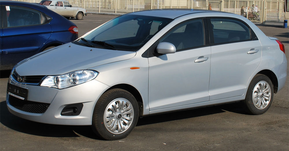 ZAZ FORZA